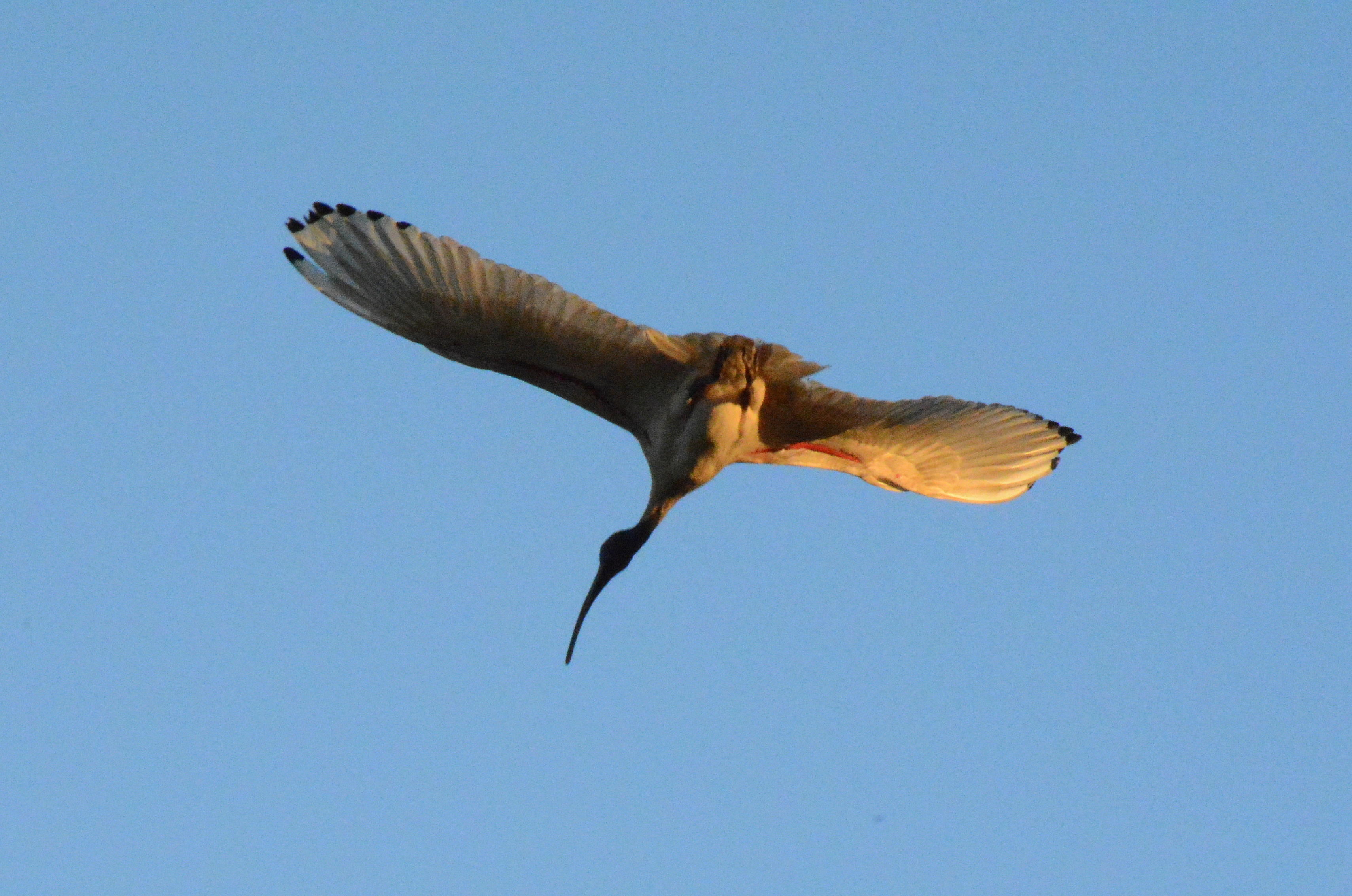 Ibis, Kensington Park, Kensington, Sydney